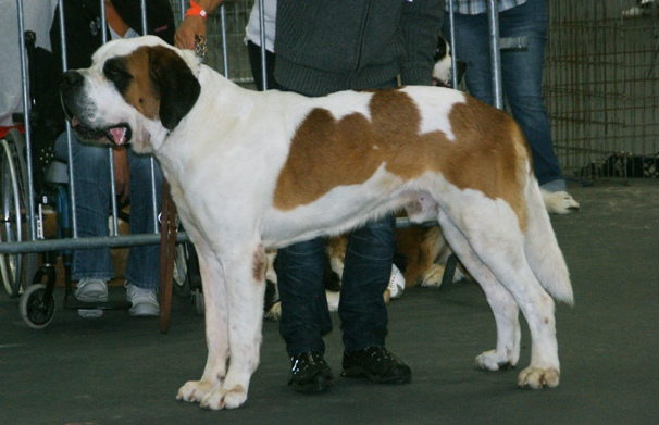 St Bernard male.